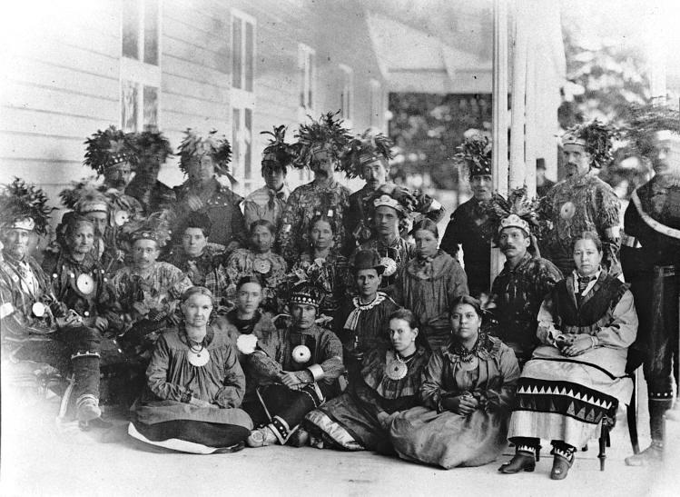 Photograph, Huron-Wendat group from Wendake (Lorette) at Spencerwood, Quebec City, QC, 1880, Jules-Ernest Livernois, February 11, 1880, Silver salts on paper - Albumen process - 24 x 31 cm